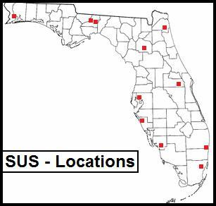 These are the member institions that comprise the State University System of Florida. 10 Universities, and 1 Liberal Arts College. Public domain map courtesy of The General Libraries, The University of Texas at Austin, modified to show member institions The image was modified from the public domain source by User:NorwalkJames